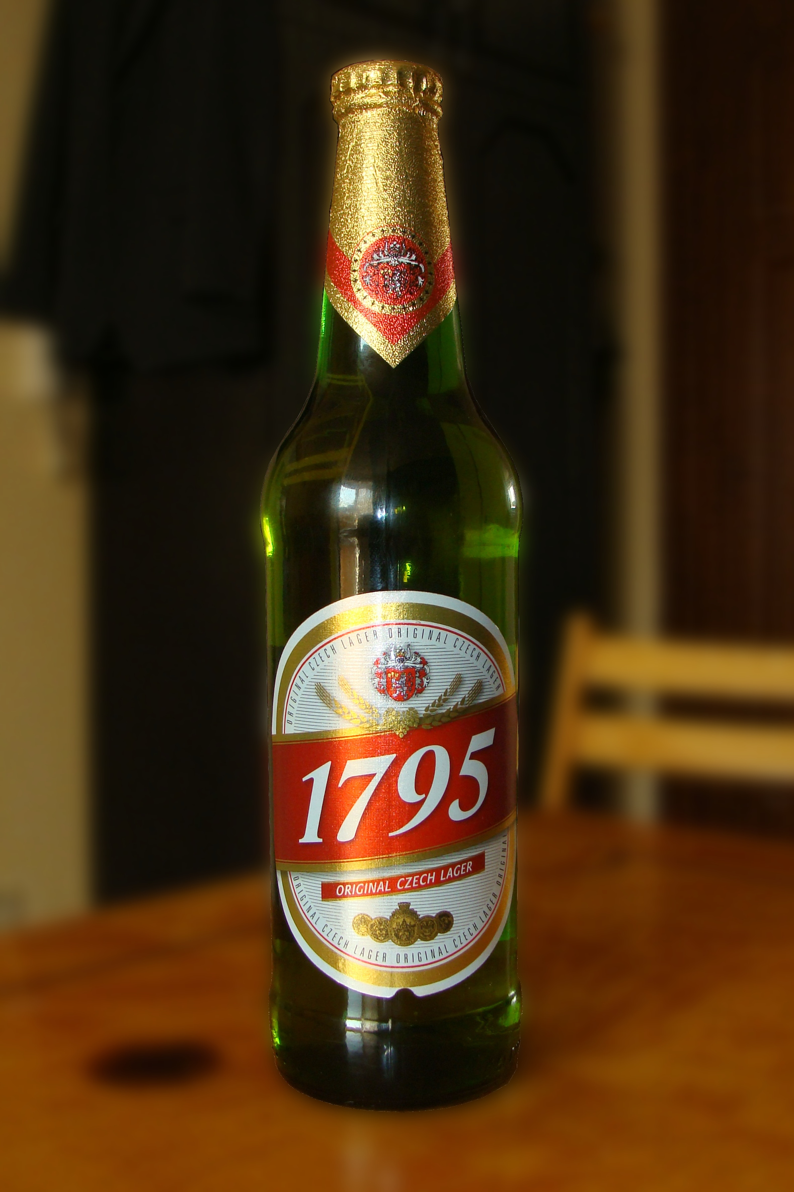 1795 Original Czech Lager (formerly Budweiser Bier or 1795 Budweiser), czech beer brewed in Pivovar Samson (formerly Budějovický měšťanský pivovar/Bürgerliches Brauhaus Budweis) in České Budějovice (Budweis).